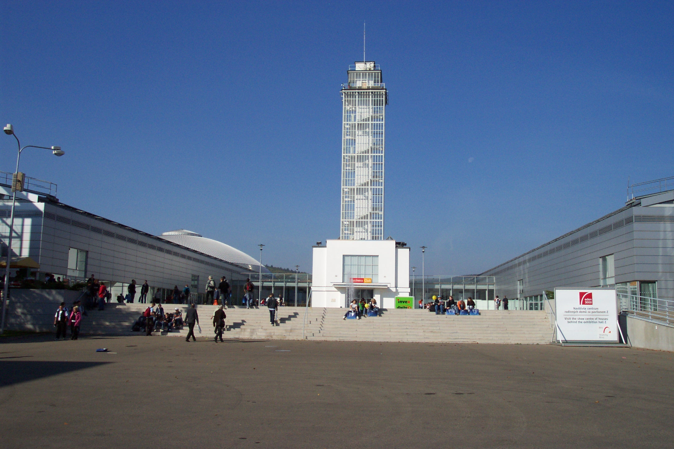 Brno, Invex exhibition - Výstava Invex v Brně